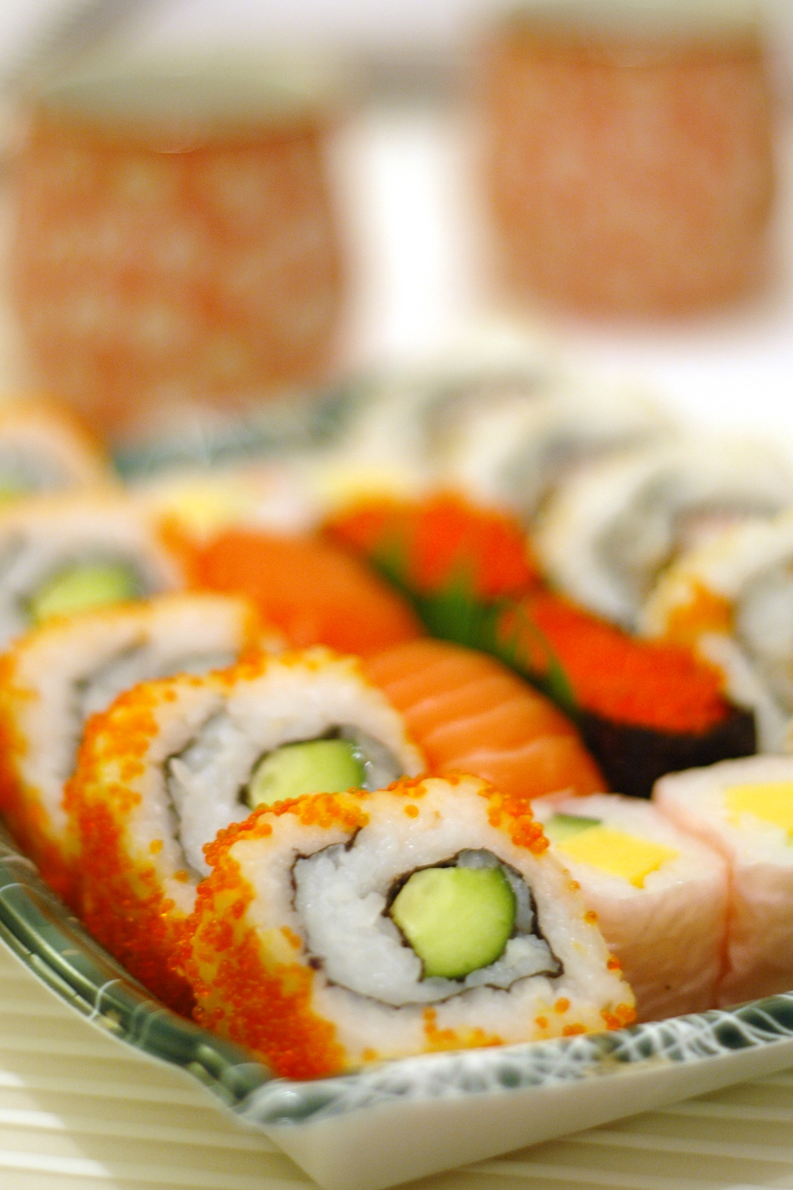 California rolls in Pearl Rice Rolls sushi plate sold at Taste, Hong Kong.